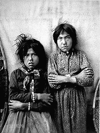 Original caption: "Two Tlingit girls, Tsacotna and Natsanitna, wearing noserings, near Cooper River, Alaska. Miles Brothers photograph, 1903. American Indian Select List number 55."